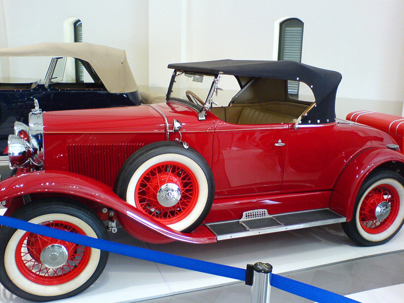 Photo of a 1930 Buick Marquette Model 34 Sport Roadster